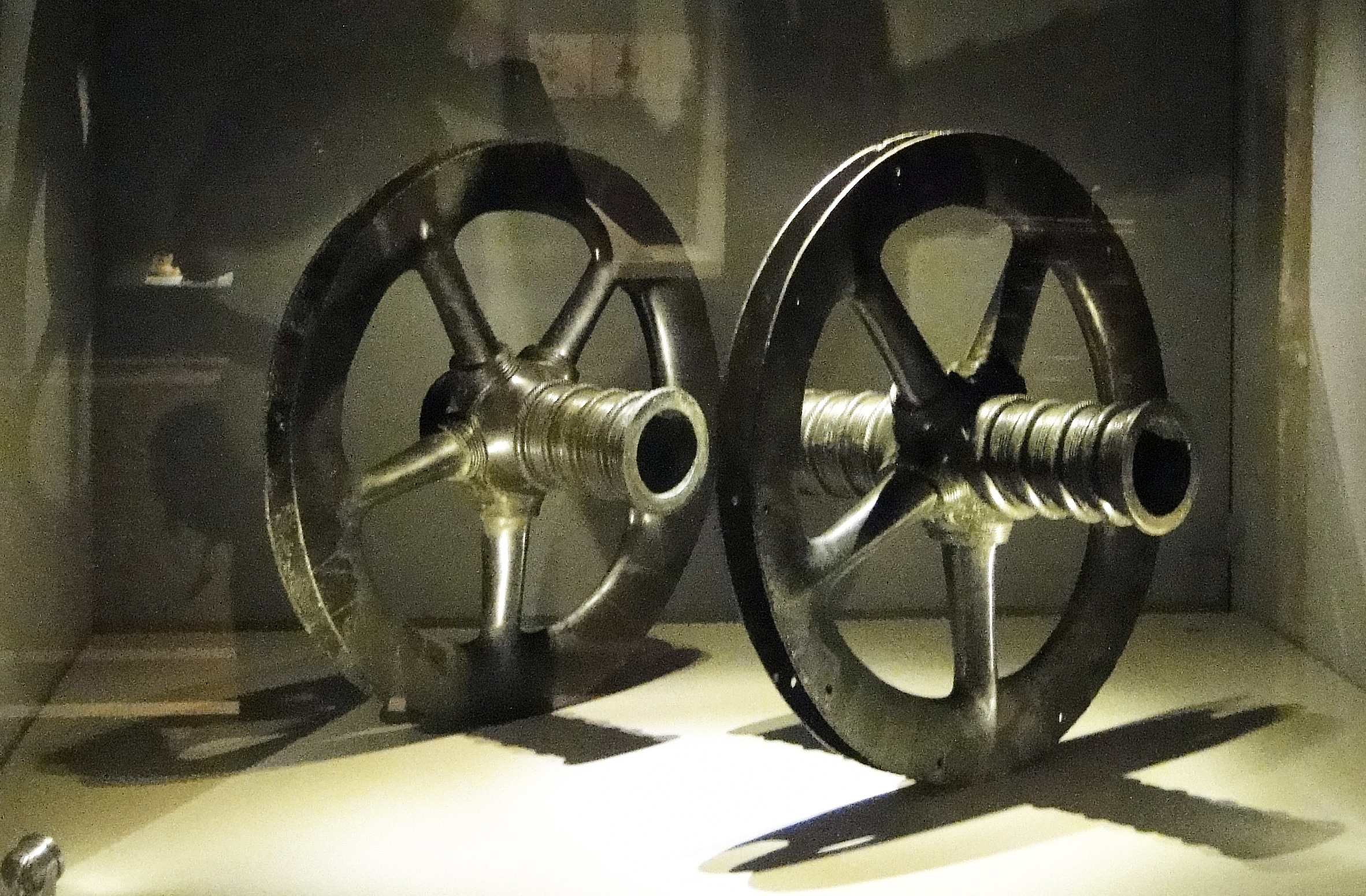 Historical Museum of the Palatinate, "Bronze wheels of Hassloch", BC 900-800, permanent exhibition display case, Speyer, Rhineland-Palatinate, Germany